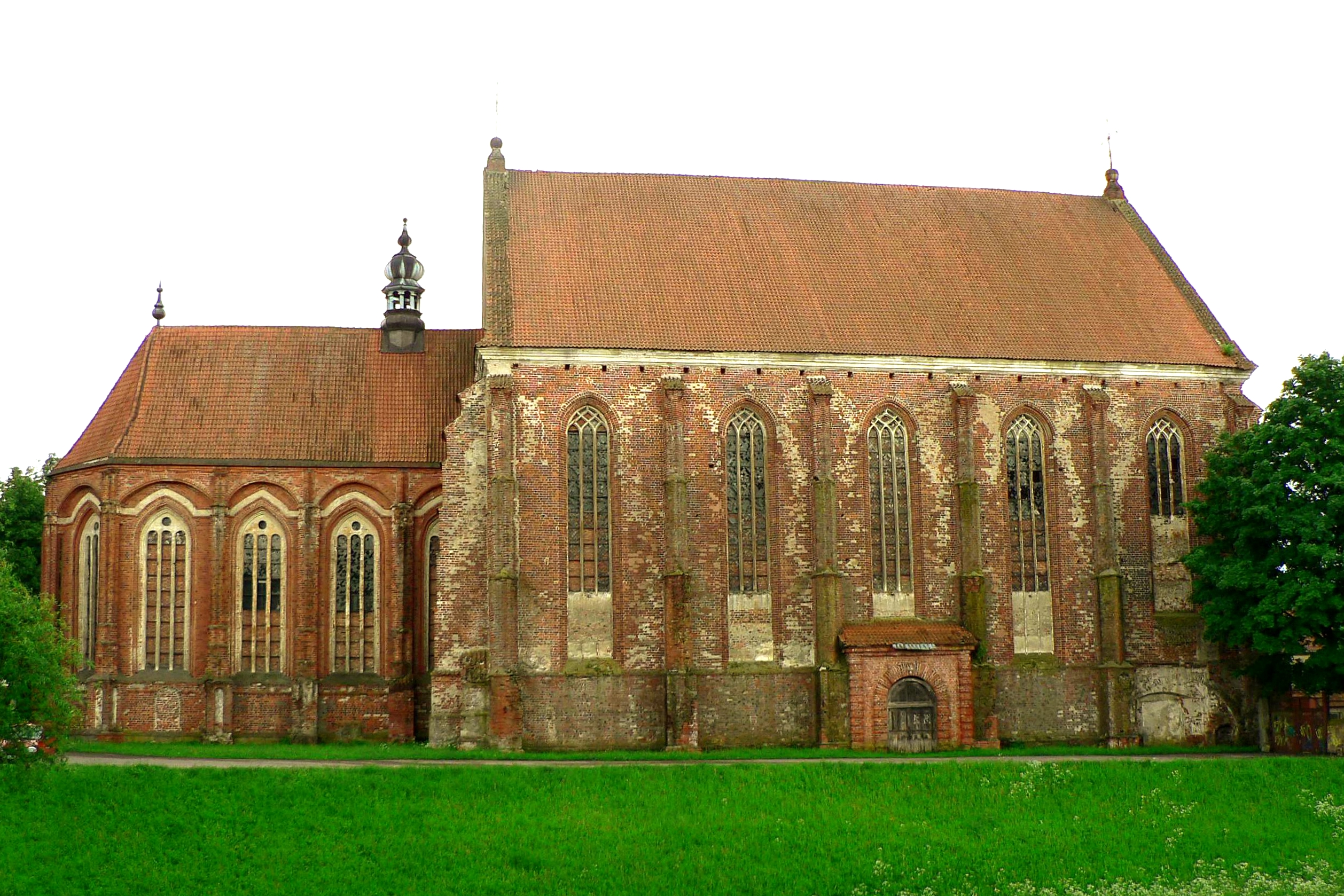 St. George church (1487) in Kaunas, Lithuania.